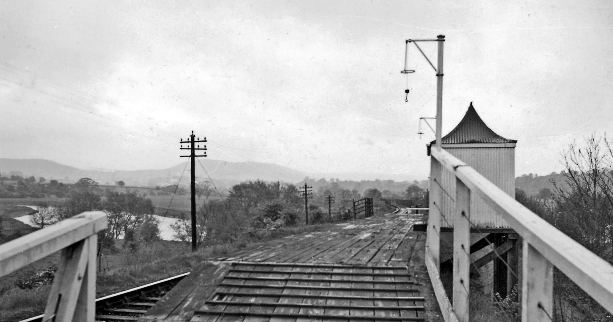 Backney Halt, near Ross-on-Wye. View southward, towards Ross-on-Wye and Gloucester: ex-GW Gloucester - Hereford line. The Halt as closed along with the passenger service on 12/2/62, while the line closed completely 12/8/63. The River Wye is seen on the left and beyond is the Forest of Dean.